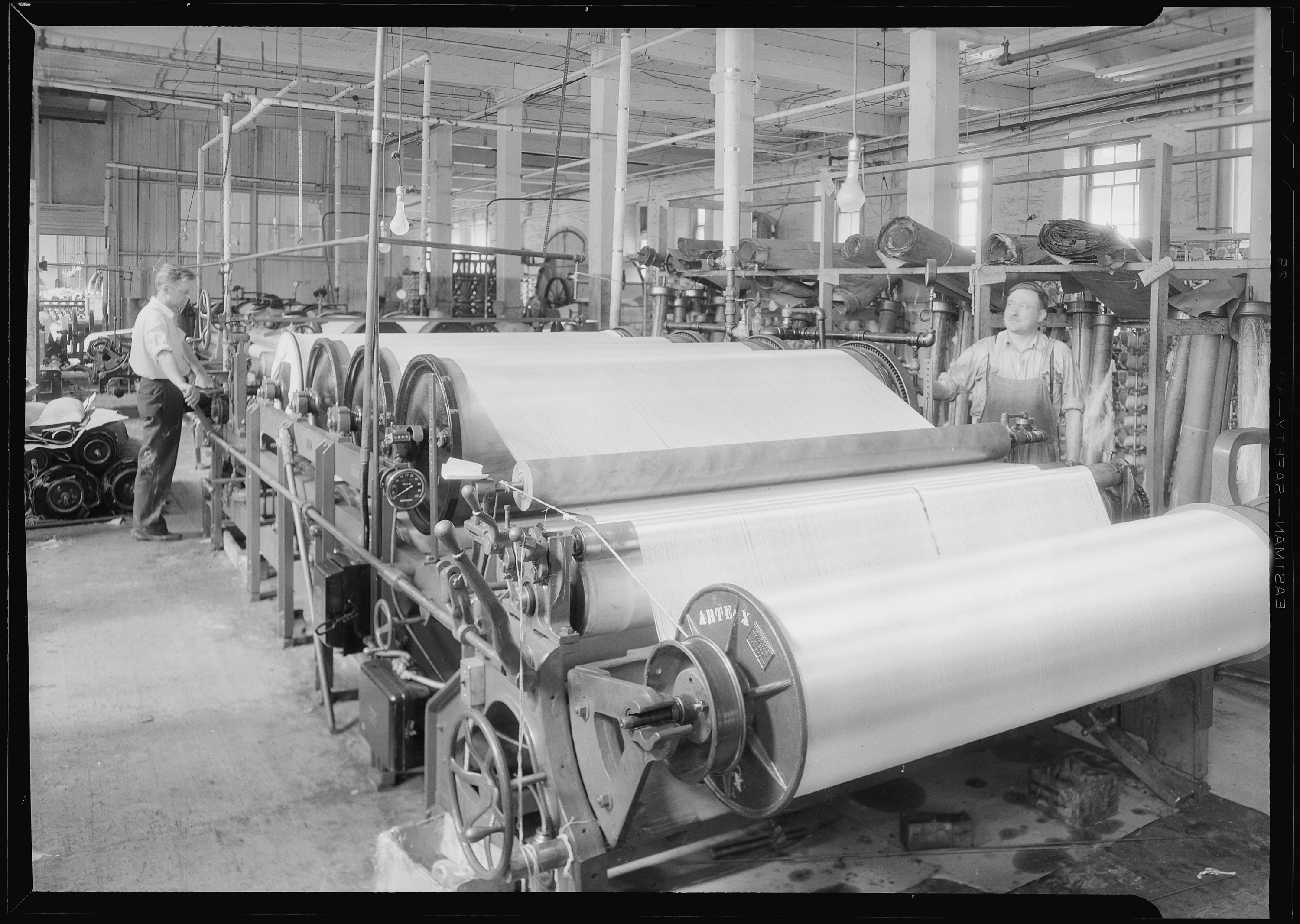 Scope and content: Paterson, New Jersey - Textiles. Jackson Winding and Warping Company. Picture of a Charles B. Johnson Sizing Machine. This is the latest High Speed Sizing Machine and is known as a "Seven Can Type." The cloth goes through this machine at the rate of 80 yards a minute and can do a 1,200 yard warp in about 45 minutes. This estimate of time includes the tying up and removing of the warp. These sizing machines come with a different number of cans. The "Five Can Type" can do about 35 yards a minute and completes the warp in approximately an hour. The "Three and Two Can Types" do about 22 yards a minute and complete a warp is about 1-1/4 to 1-1/2 hours. Regardless of the number of cans involved in a particular machine, the sizing requires 2 operators on the machine in use.